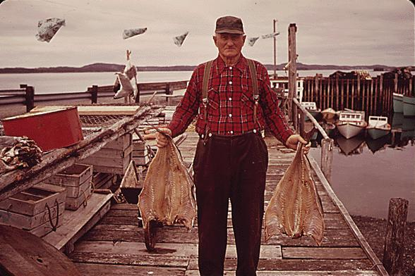 A fisherman at Malloch Beach, Campobello Island, New Brunswick, Canada.